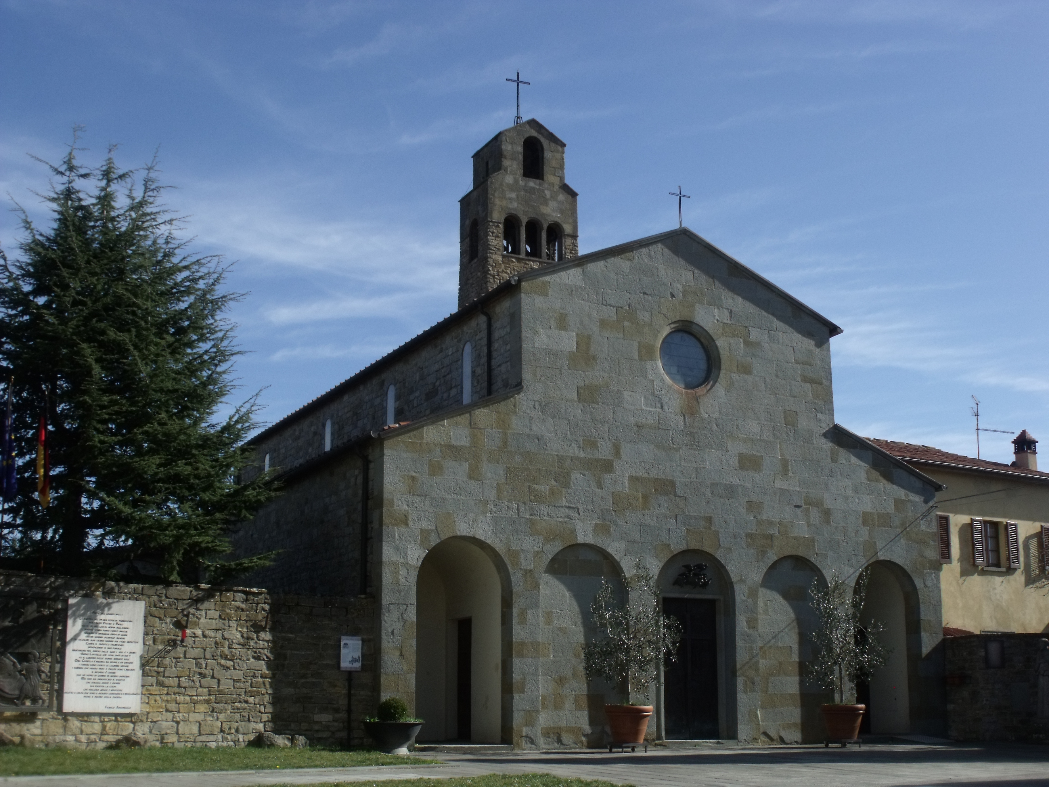 Church Santa Maria Assunta in Civitella in Val di Chiana, Province of Arezzo, Tuscany, Italy